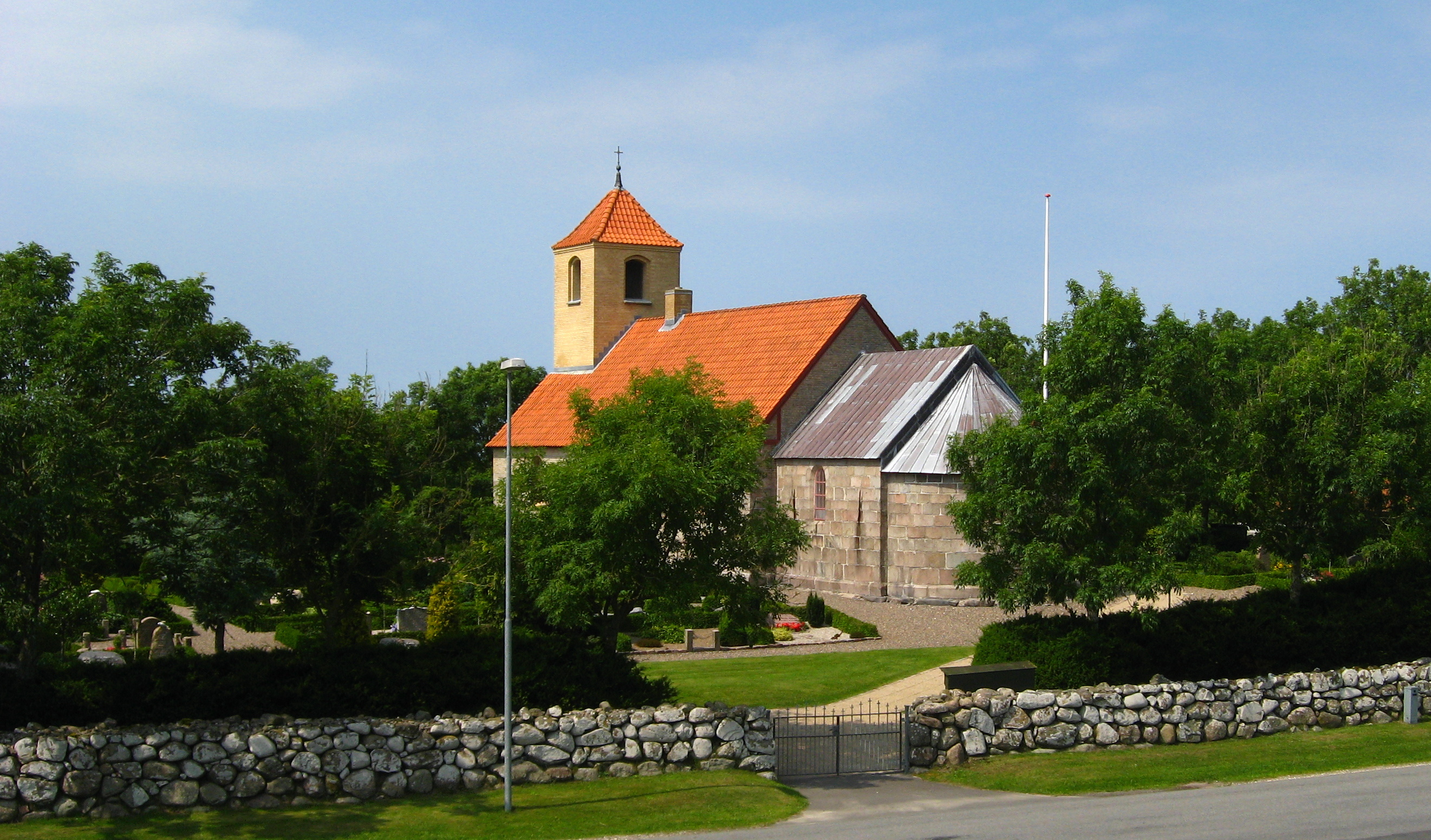 The church in Skraem, Northern Denmark